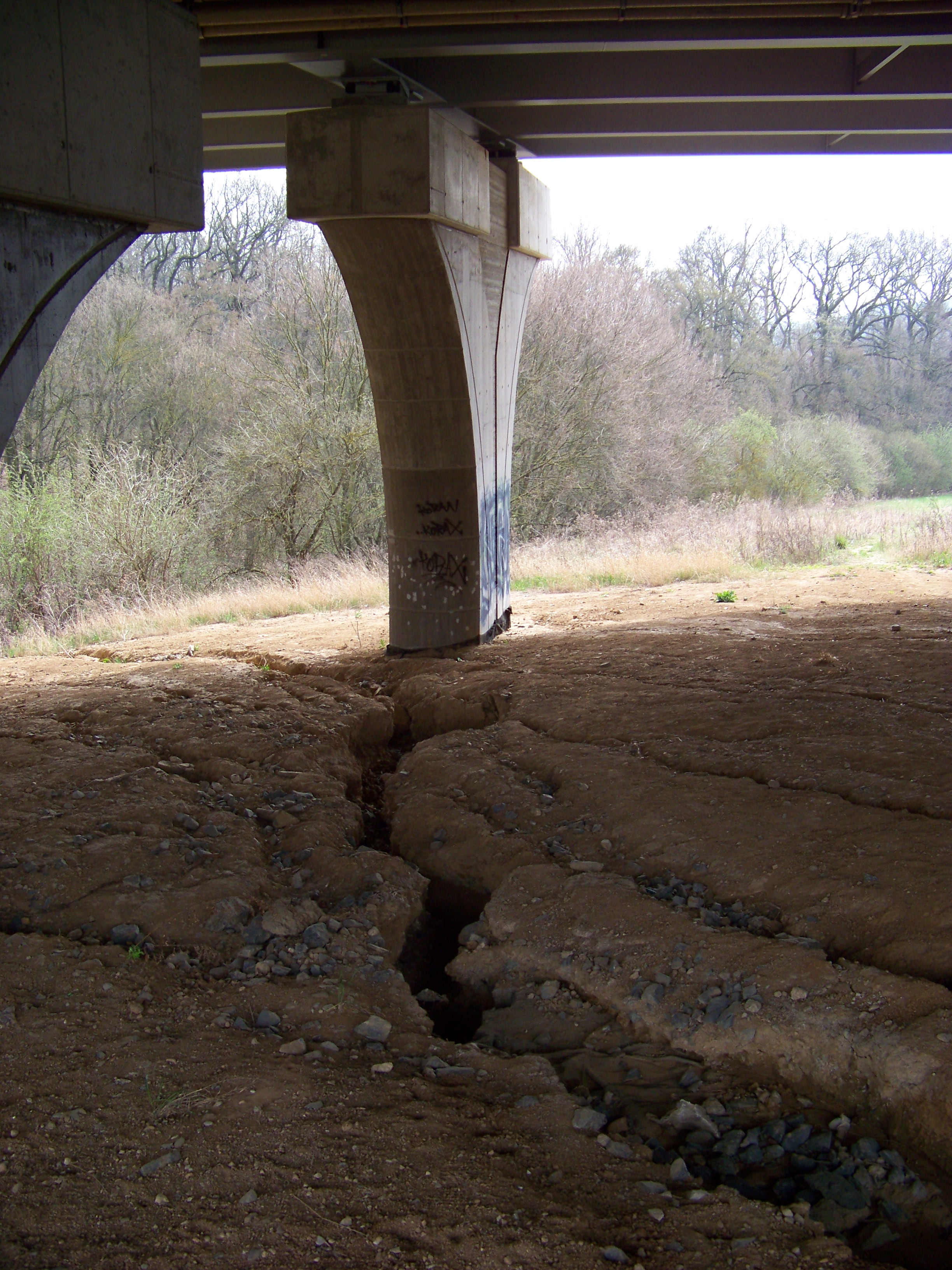 Prague-Lochkov, Czech Republic. Pražský okruh (Prague Beltway), Slavičí most.